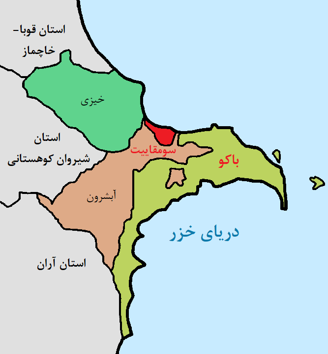 Absheron Region